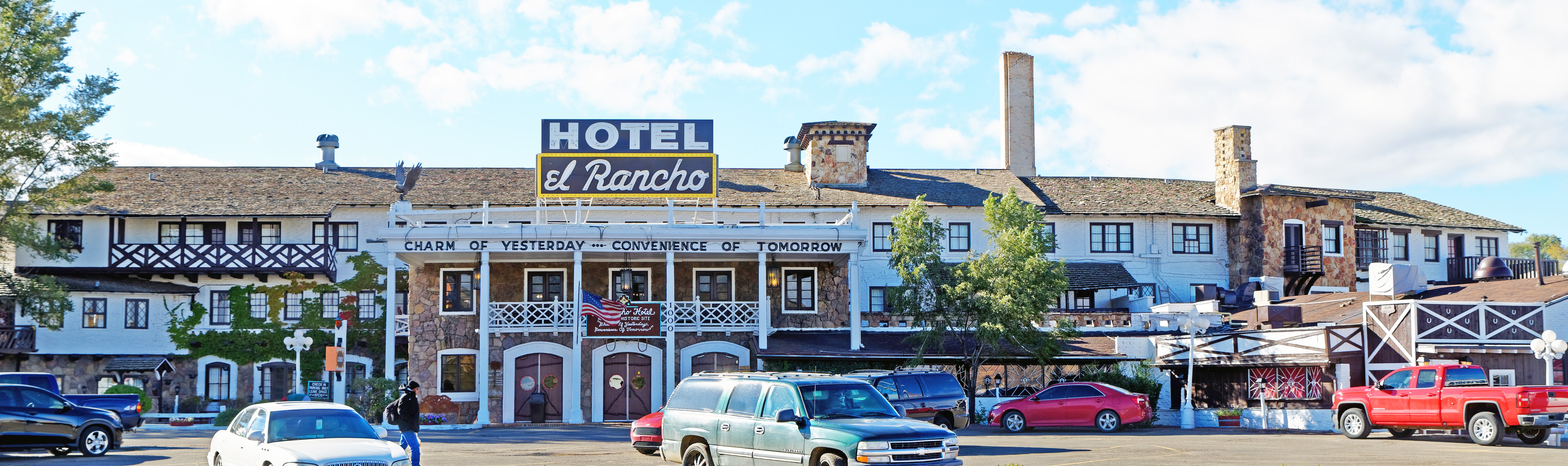 El Rancho Hotel & Motel, Gallup, New Mexico, United States